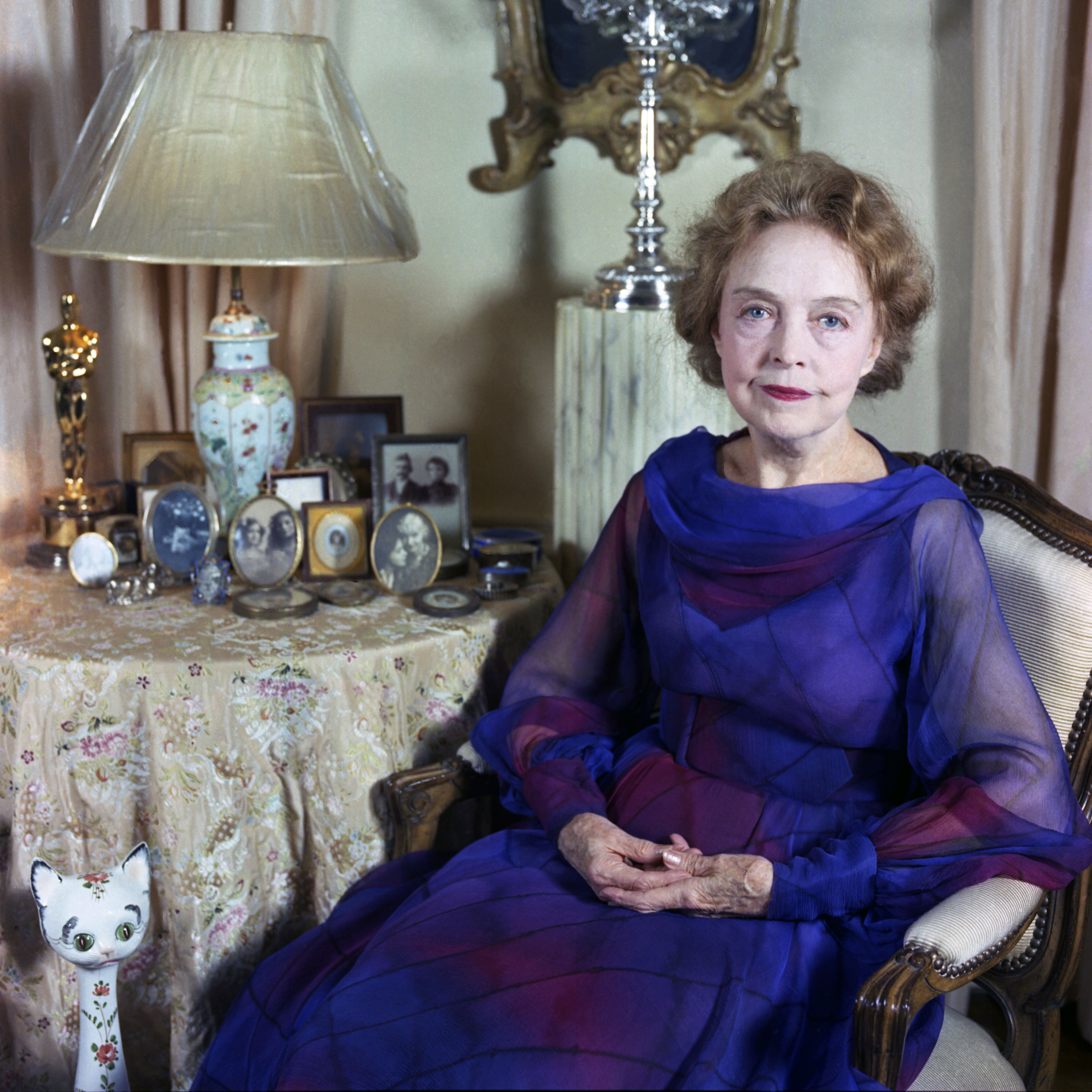 Lilian Gish in her New York apertment with her honorary Oscar